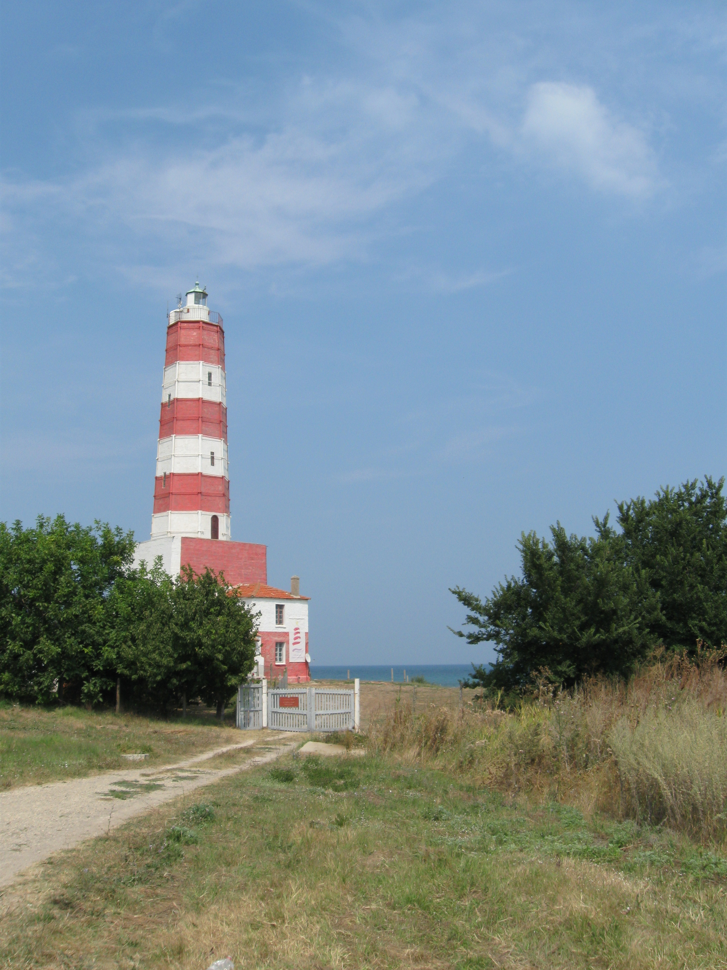 Lighthouse at Shabla Cape.